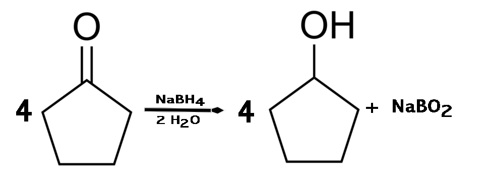 Cyclopentanol synthesis from cyclopentanone